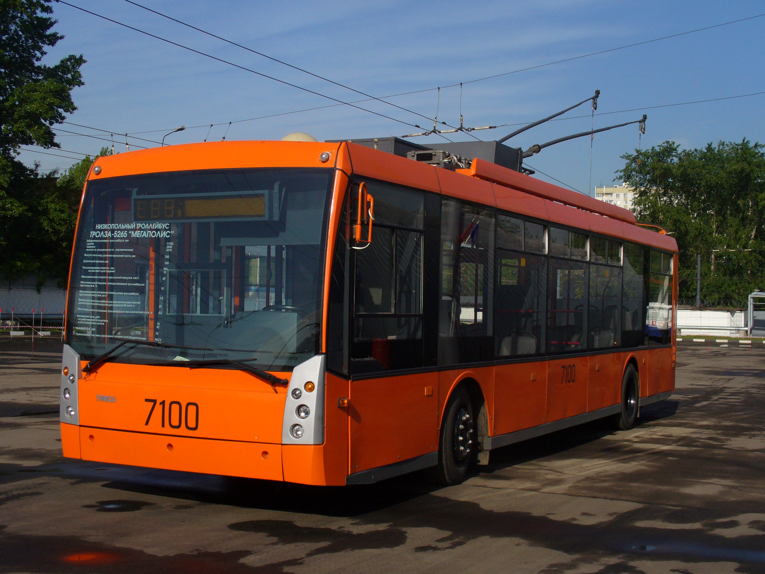 Moscow, trolleybus Trolza-5265 "Megapolis". Trolleybus depot №7.